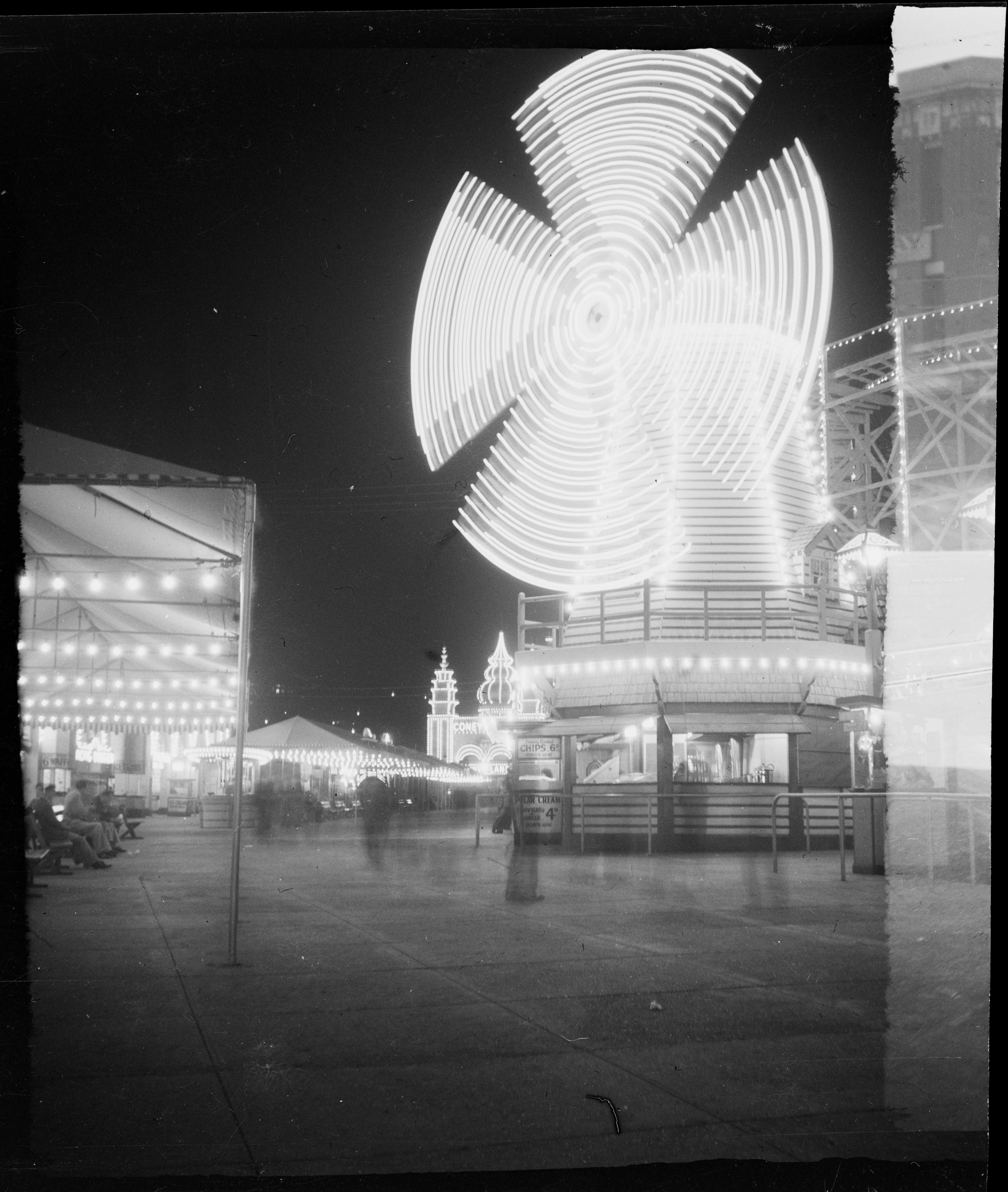 Format: Photograph Find more detailed information about this photographic collection: .au/item/itemDetailPaged.aspx?itemID=111061 From the collection of the State Library of New South Wales